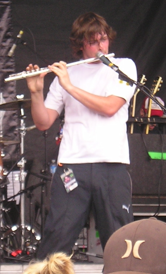 Robin Hawkins performing on the Vans Warped Tour in St. Petersburg.